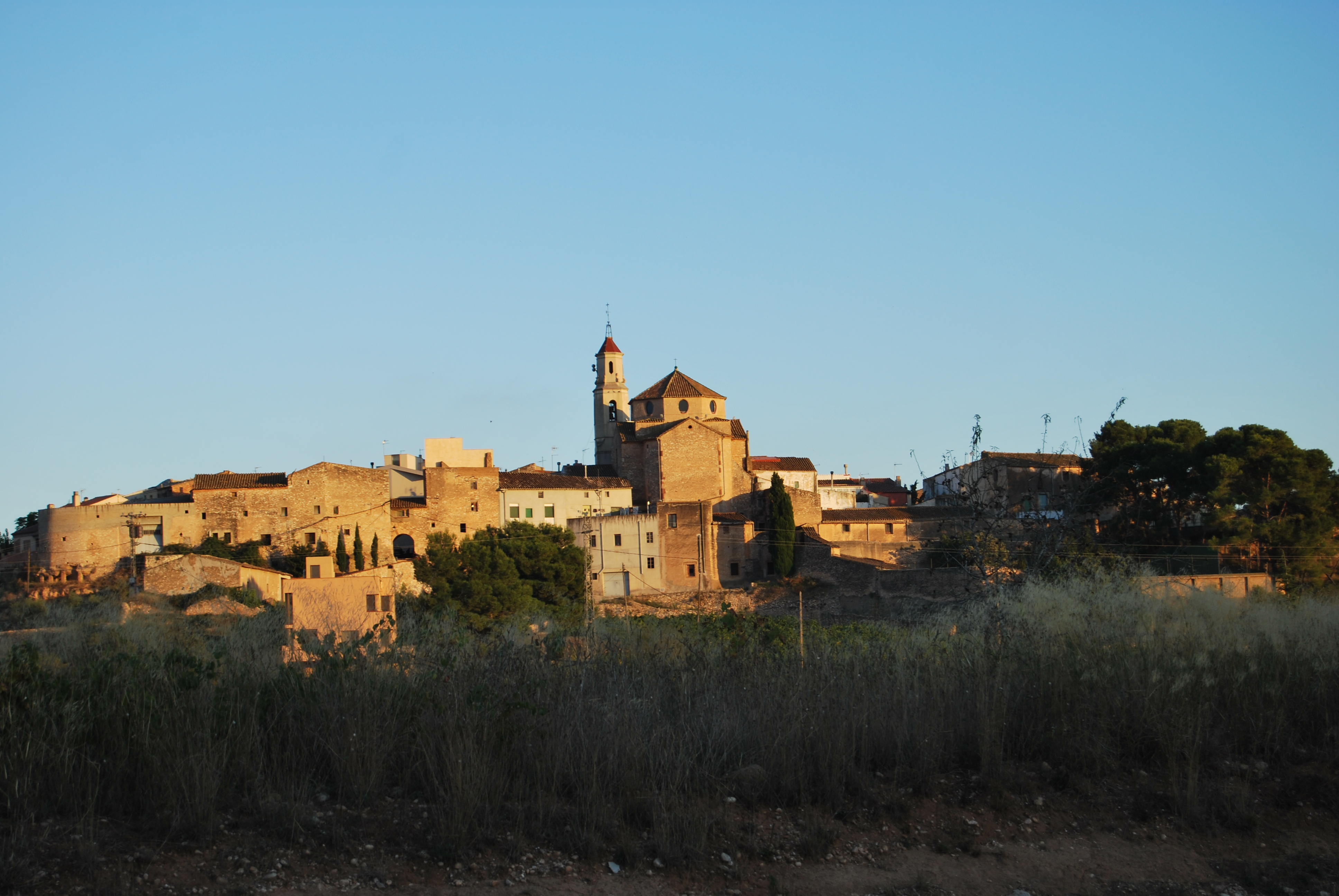 Village general view; taken from the road connecting with Alio